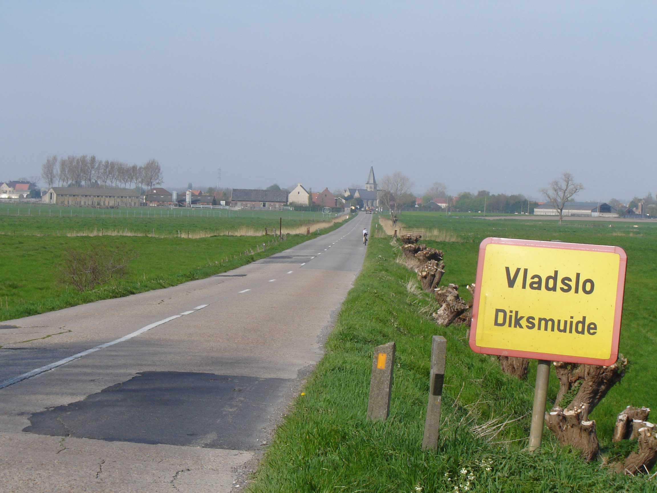 View on Vladslo, as seen from the bridge over the Handzamevaart, on the border with Esen. Vladslo, Diksmuide, West-Flanders, Belgium.